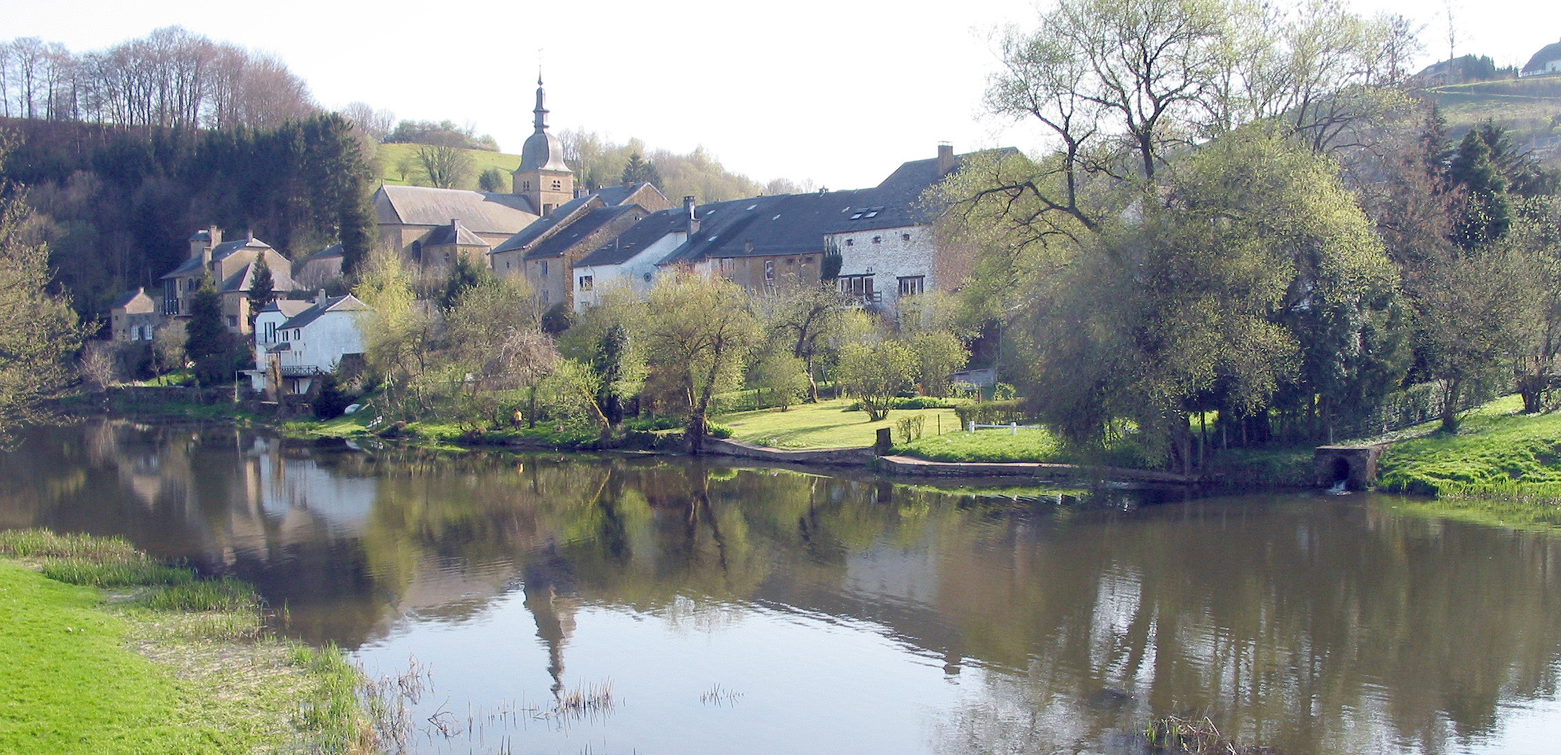 Chassepierre, the village and the Semois river.